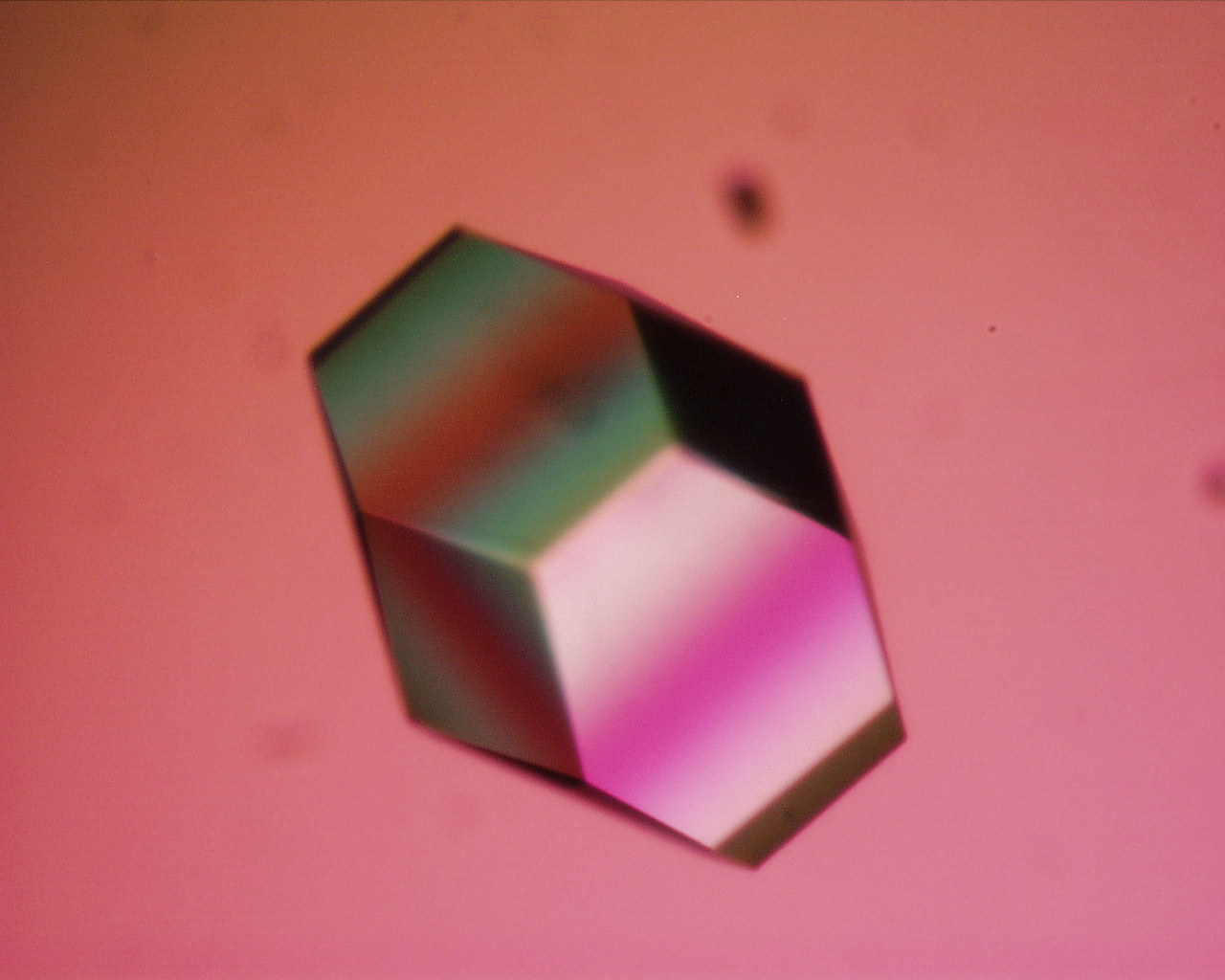 Single Protein crystal of Lysozyme Photographed by Mathias Klode